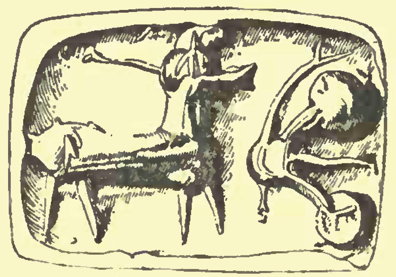 Prism-seal. Crete. Berlin, Cat. no. 62